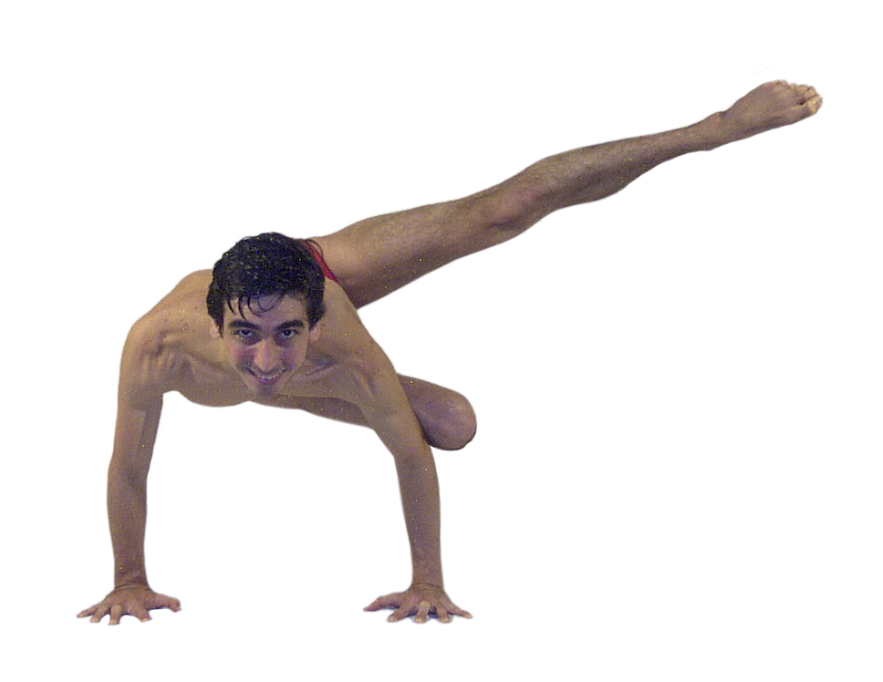 Swásthya Yôga instructor doing úrdhwa parshwa kákásana